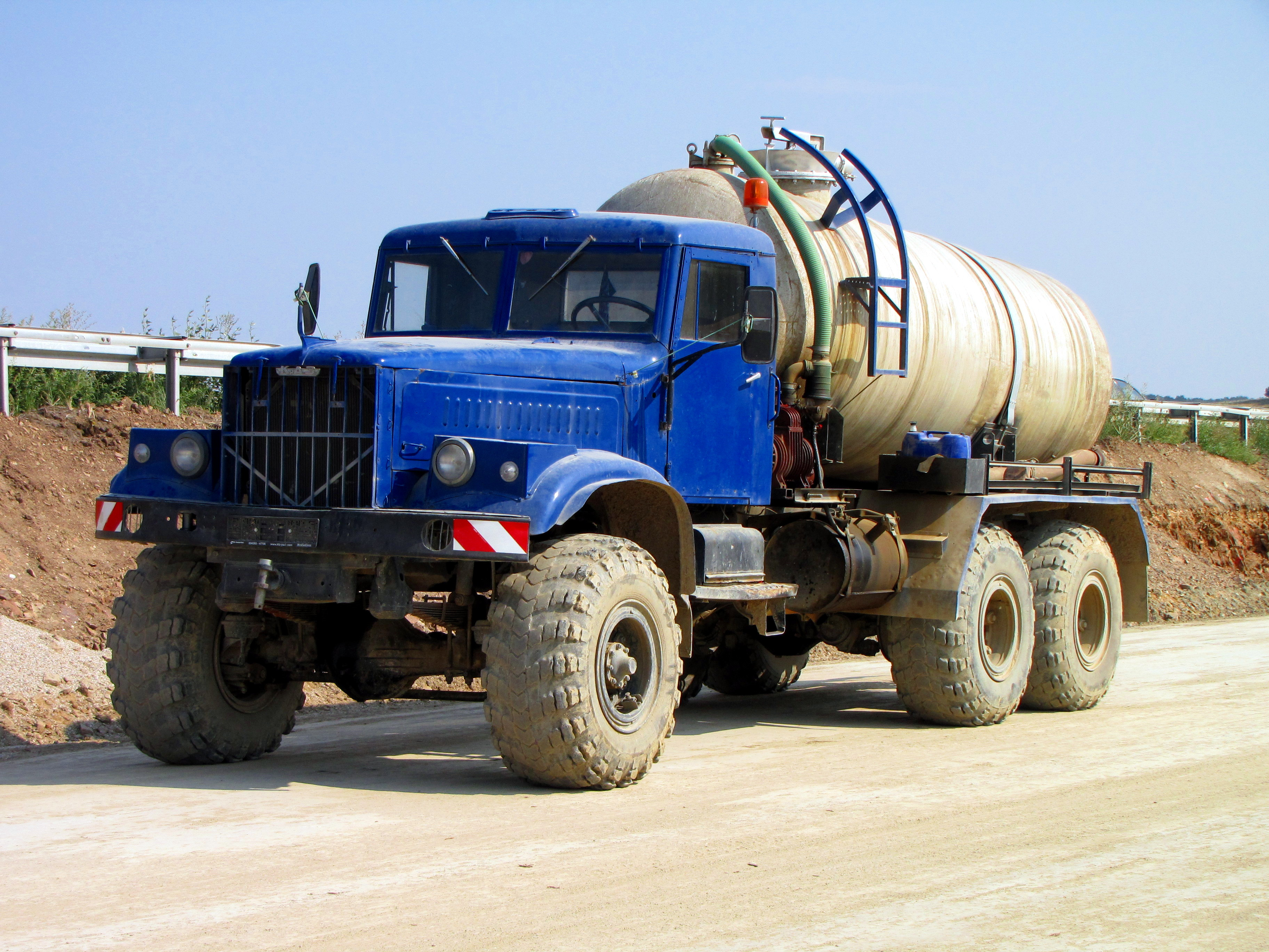 KrAZ 255 Truck which got the tank from a Fortschritt HTS 100 as superstructure on a STRABAG construction site on the A13 highway in the direction of Dresden between Radeburg and Marsdorf.